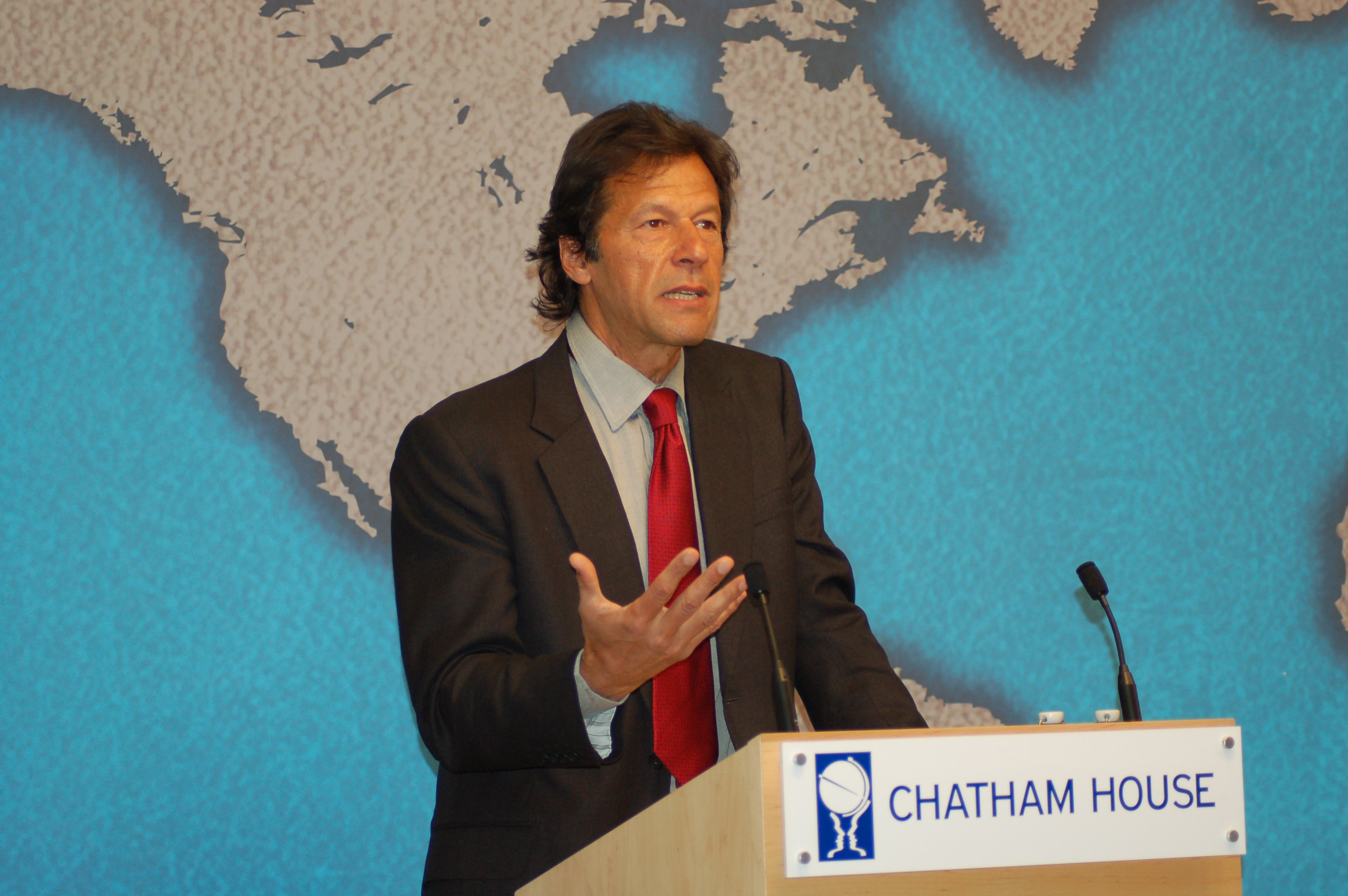 14 January 2010